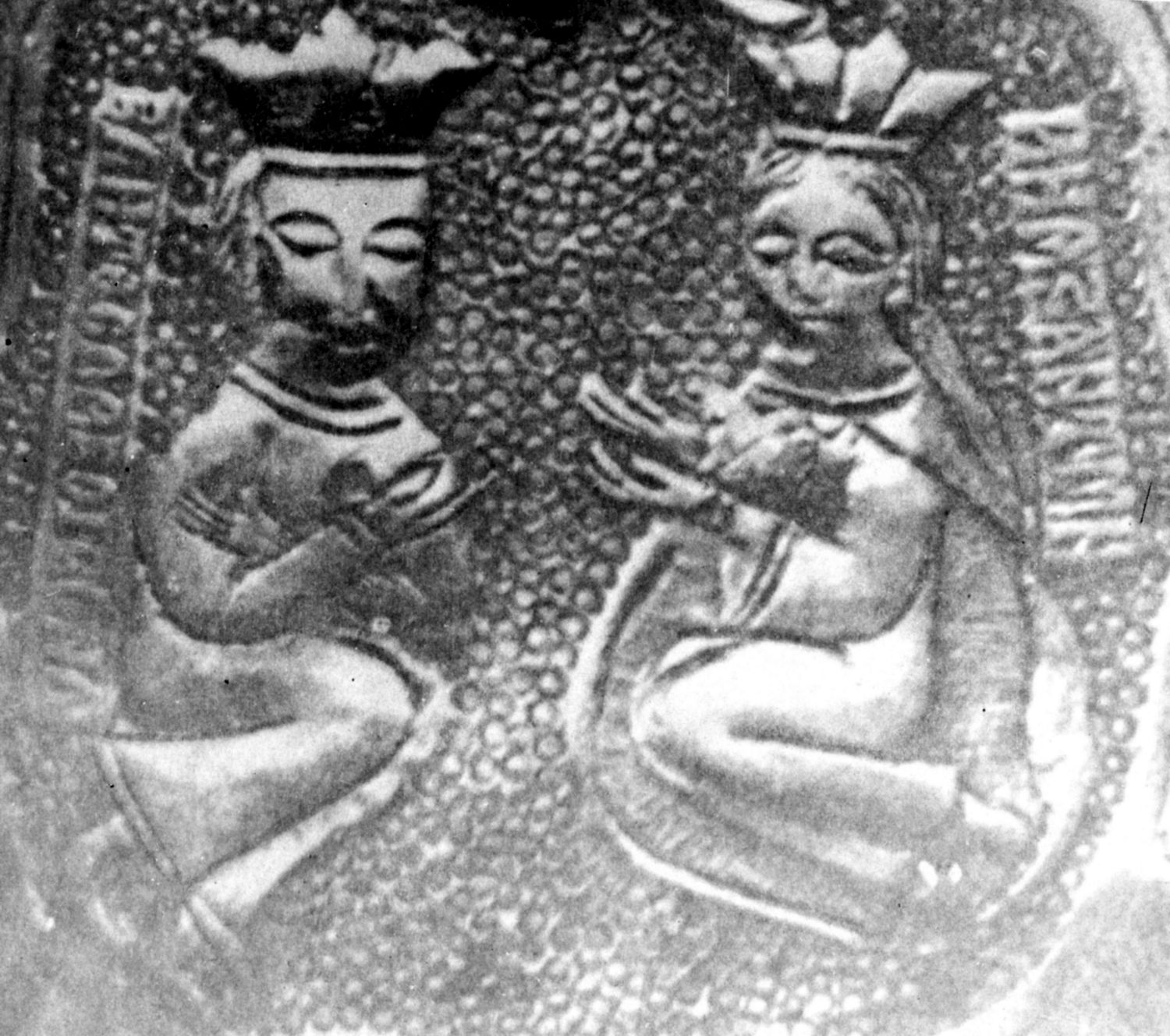 Portrait at St. Stephen Monastery, Meteora